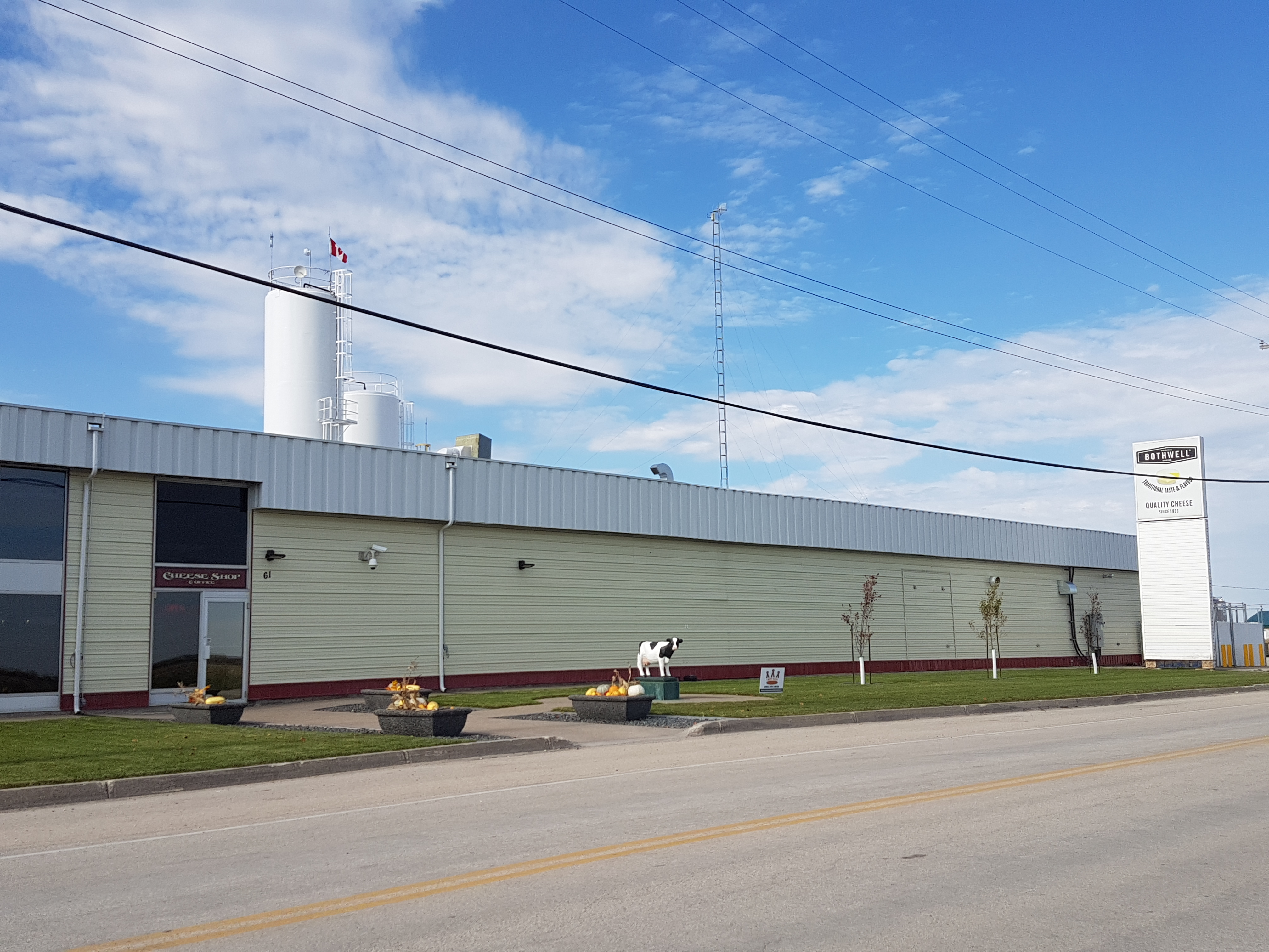 The New Bothwell Cheese Factory in New Bothwell, Manitoba.